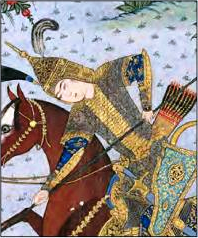 Painting of Gurdiya in The Shahnama of Shah Tahmasp